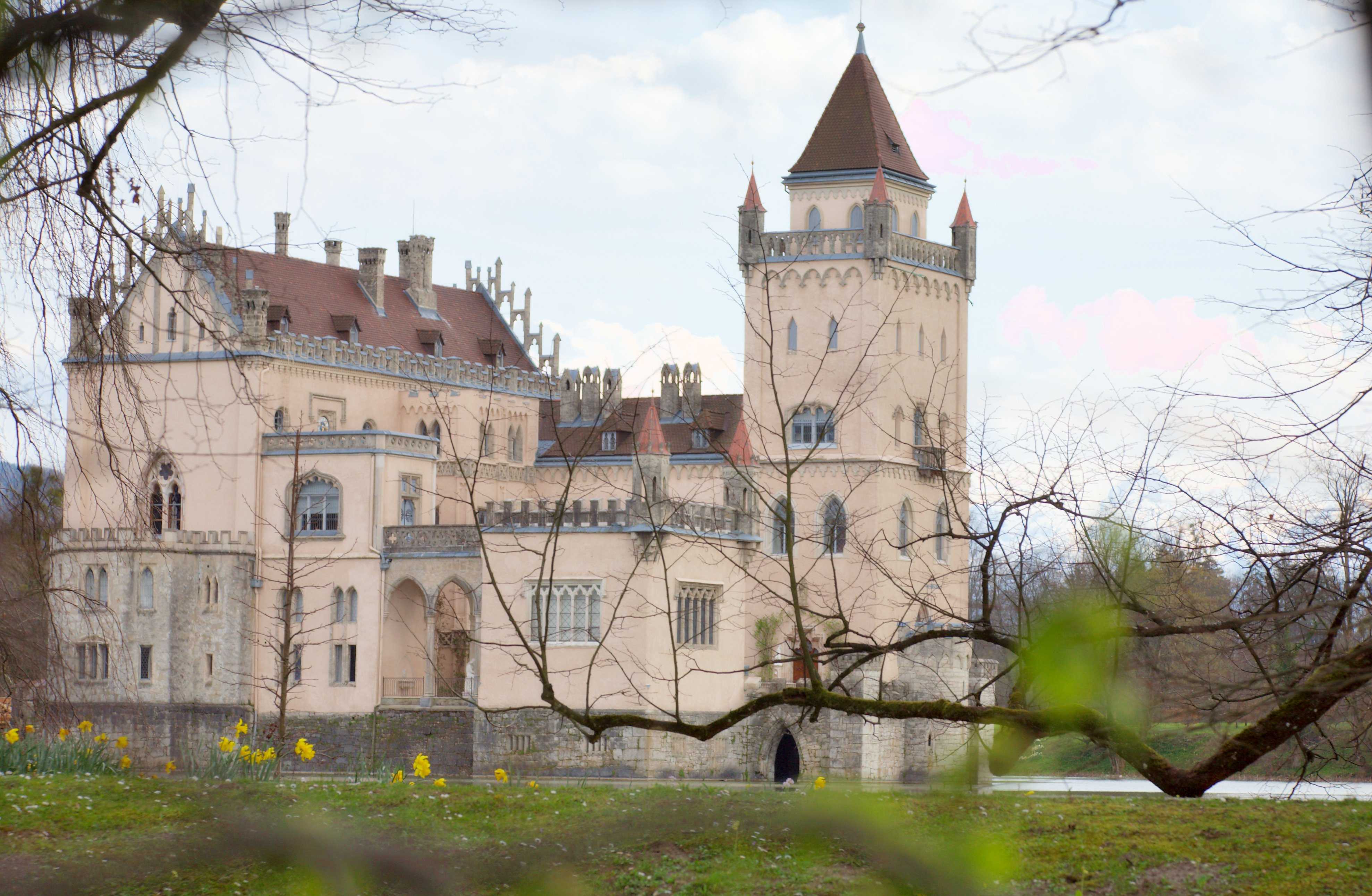 Anif Palace, north-western aspect